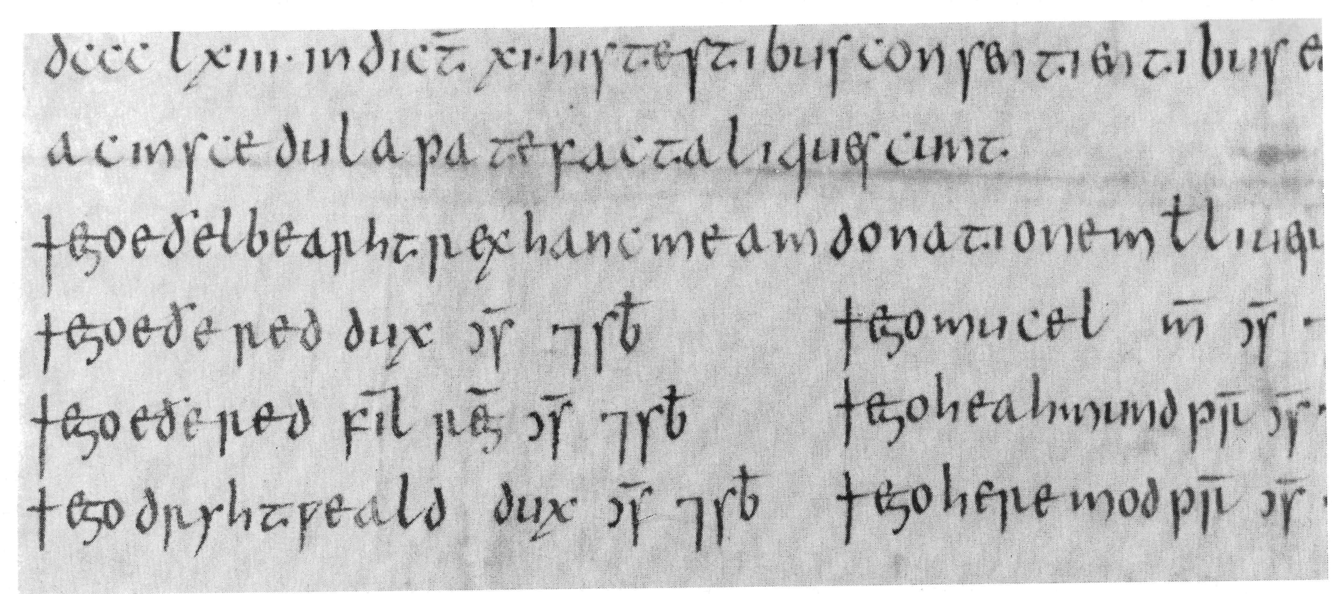 The beginning of the attestations in Charter S 332 dated 863 of KIng Æthelberht of Wessex. The king attests first, then Ealdorman Æthelred (Æthelred dux) and then Æthelred filius regis, the future King Æthelred I.